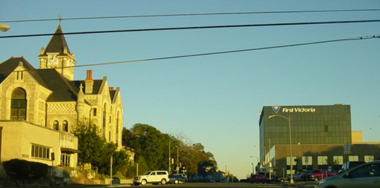 Constitution Street Downtown, Victoria (Texas)